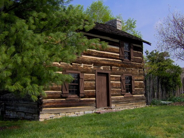 The home of James White at White's Fort in Knoxville, Tennessee, in the southeastern United States. The fort was originally built in 1786 and became the nucleus of Knoxville, which was founded in 1791. The house has been dismantled and moved twice. The palisade and outbuildings were reconstructed in 1960s. The fort is currently located on Hill Avenue, and is open to the public.